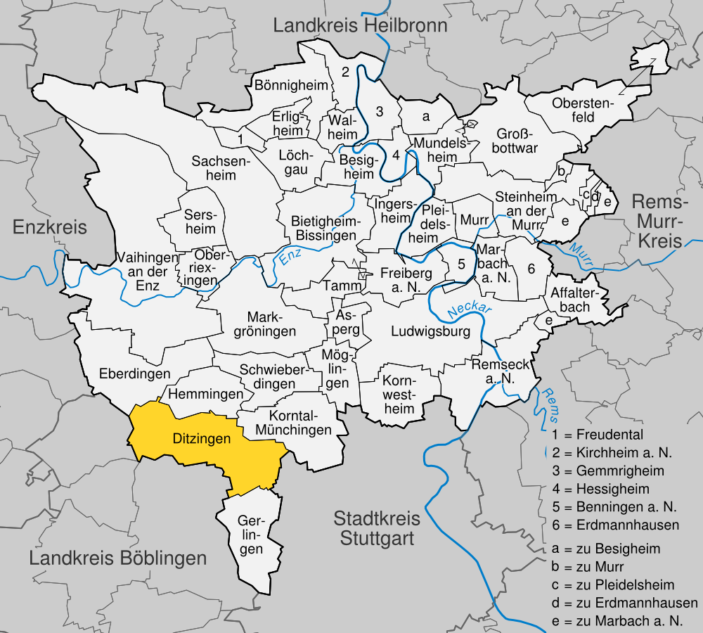 position of Ditzingen within distict of Ludwigsburg, Baden-Württemberg, Germany